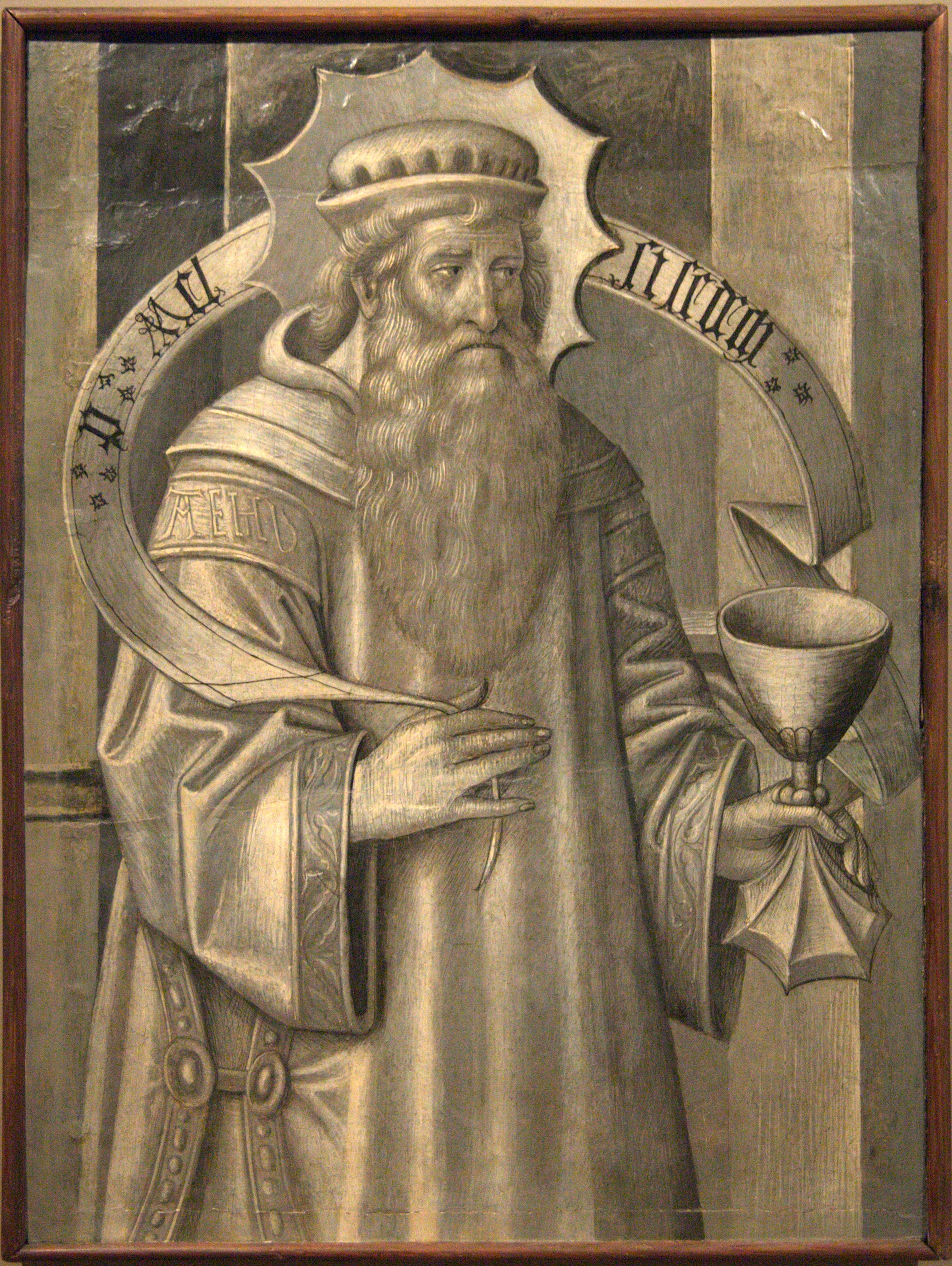 Jaume Huguet artwork Artist Jaume Huguet (1412–1492) DescriptionCatalan painterDate of birth/deathcirca 14121492Location of birth/deathVallsBarcelonaWork locationBarcelona, Zaragoza, TarragonaAuthority control VIAF: 96539132 ISNI: 0000 0001 1776 8460 ULAN: 500115623 LCCN: nr94026707 WGA: HUGUET, Jaume WorldCat TitleCompartiment del revers de la predel·la de Santa Maria de Ripoll- MelquisedecDescription Compartiment del revers de la predel·la de Santa Maria de Ripoll- Melquisedec Datecirca 1455Mediumtempera on panel,DimensionsHeight: 77 cm (30.3 in). Width: 58 cm (22.8 in).Current location Museu Episcopal de Vic Native nameMuseu Episcopal de VicLocationVic, provincia de Barcelona, (Spain)Coordinates41° 55′ 43″ N, 2° 15′ 20″ E Established1891Website control VIAF: 136050720 ISNI: 0000 0001 2164 425X ULAN: 500312506 LCCN: n85118280 GND: 1088816096 WorldCat Source/PhotographerOwn workPermission (Reusing this file) This is a faithful photographic reproduction of a two-dimensional, public domain work of art. The work of art itself is in the public domain for the following reason: This work is in the public domain in its country of origin and other countries and areas where the copyright term is the author's life plus 100 years or less. You must also include a United States public domain tag to indicate why this work is in the public domain in the United States. This file has been identified as being free of known restrictions under copyright law, including all related and neighboring rights. The official position taken by the Wikimedia Foundation is that "faithful reproductions of two-dimensional public domain works of art are public domain". This photographic reproduction is therefore also considered to be in the public domain in the United States. In other jurisdictions, re-use of this content may be restricted; see Reuse of PD-Art photographs for details. Compartiment del revers de la predel·la de Santa Maria de Ripoll- Melquisedec